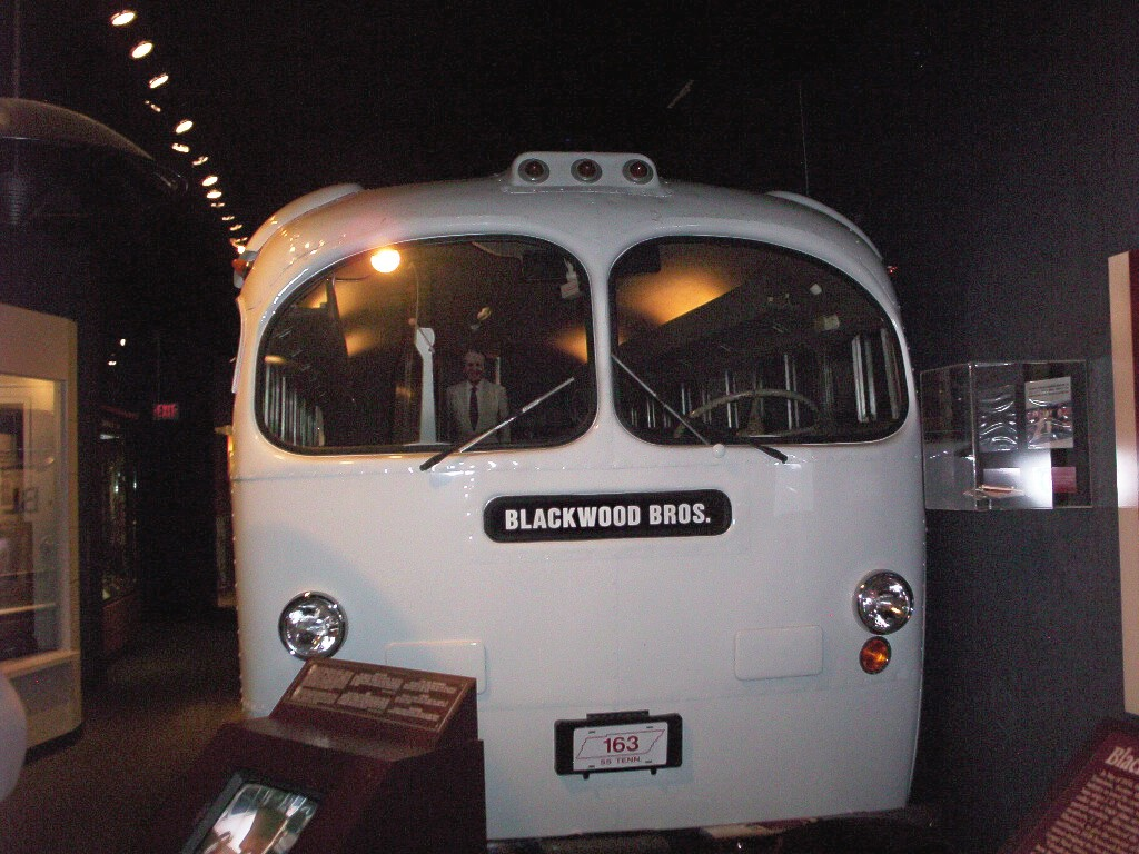 Replica of Blackwood Brothers bus at SGMA Museum, by Terrill White